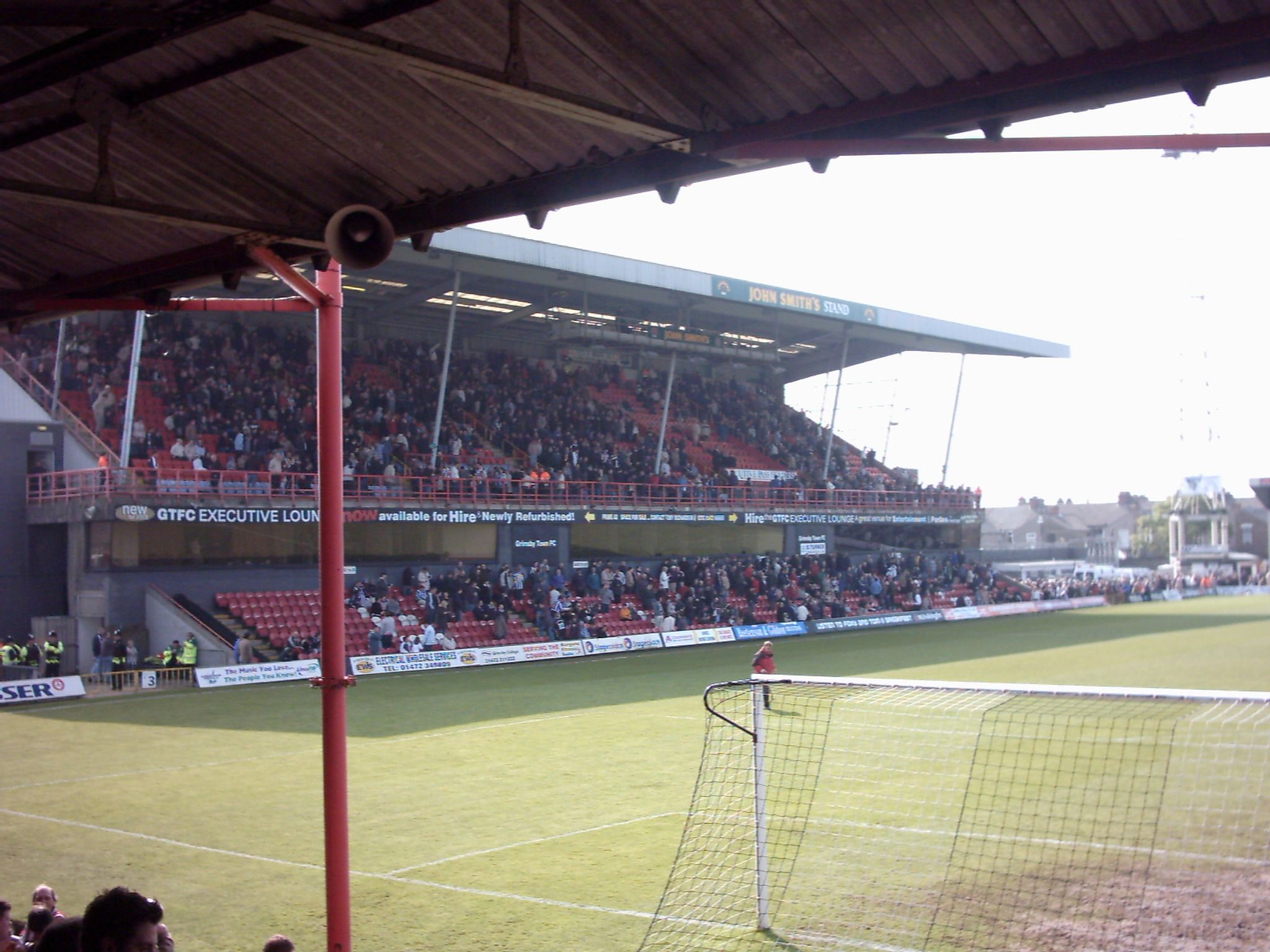 Taken by user:superbfc on 2004-05-01 with TCM 3.2 MPix camera